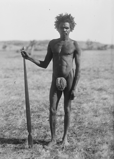 Original caption: “Man with a spear-thrower.”